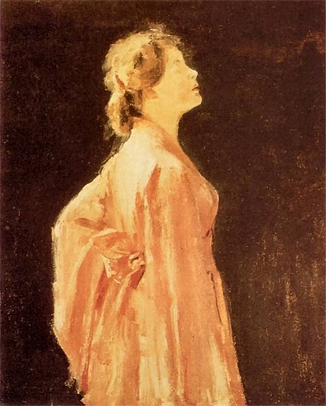 Blind